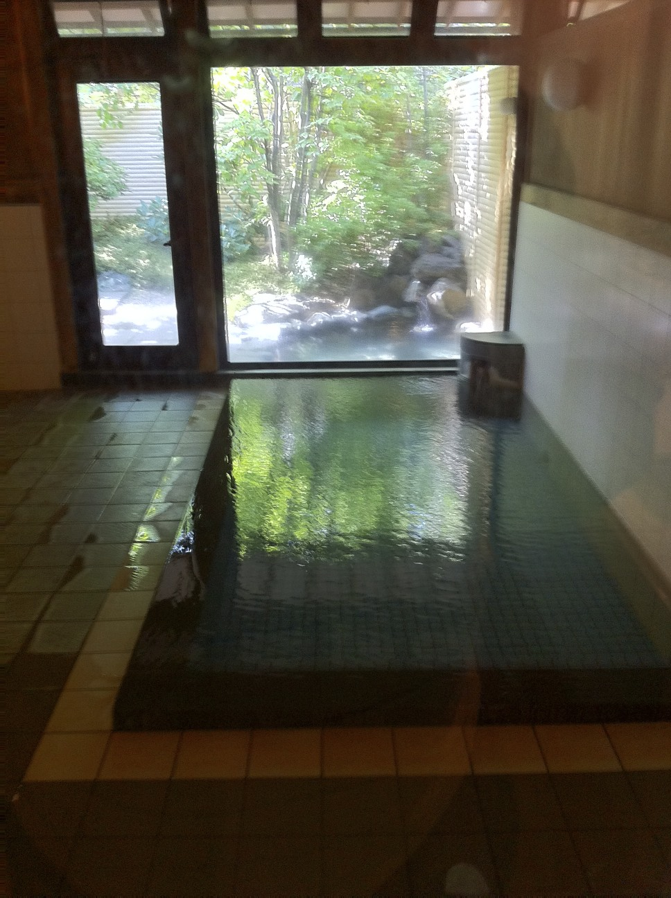 Asama Onsen. Higashi Ishikawa Ryokan